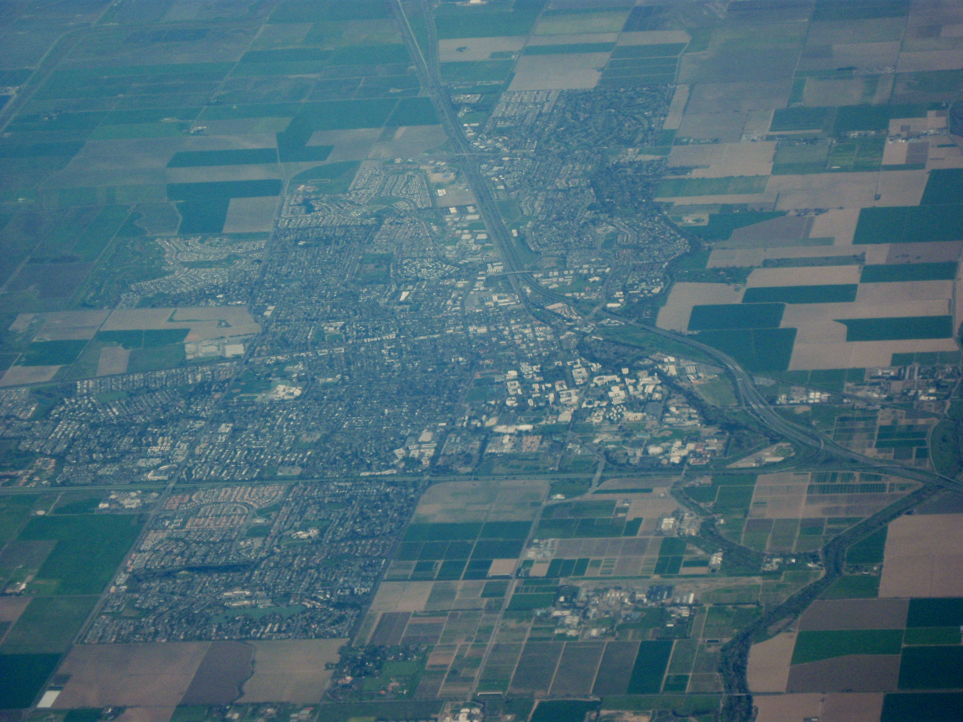 Aerial view of the city of Davis, California.